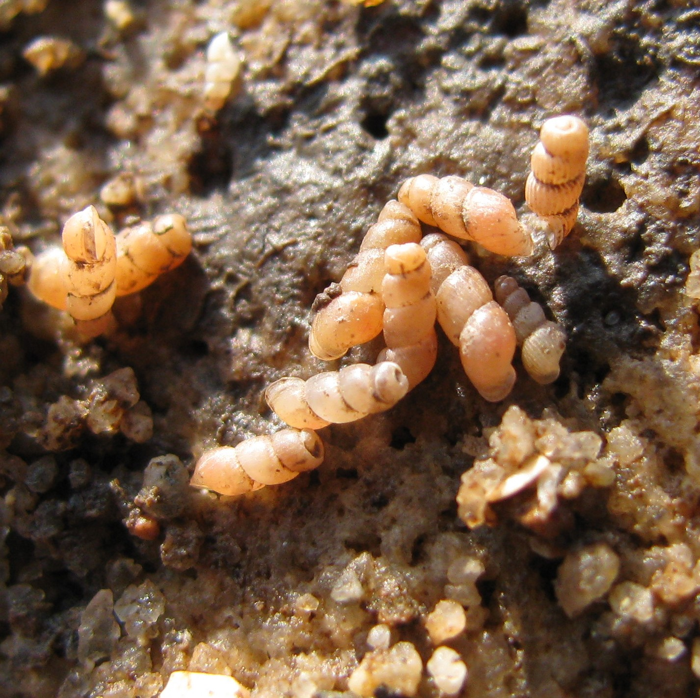 A group of Truncatella subcylindrica underneath a stone. Golfe du Morbihan, Bretagne sud, France. 47 35 26 N; 2 43 25 O.